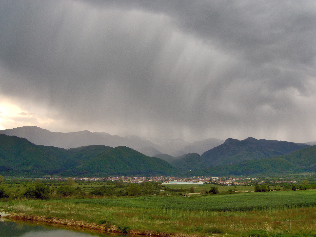 Village of Kostenets in Bulgaria